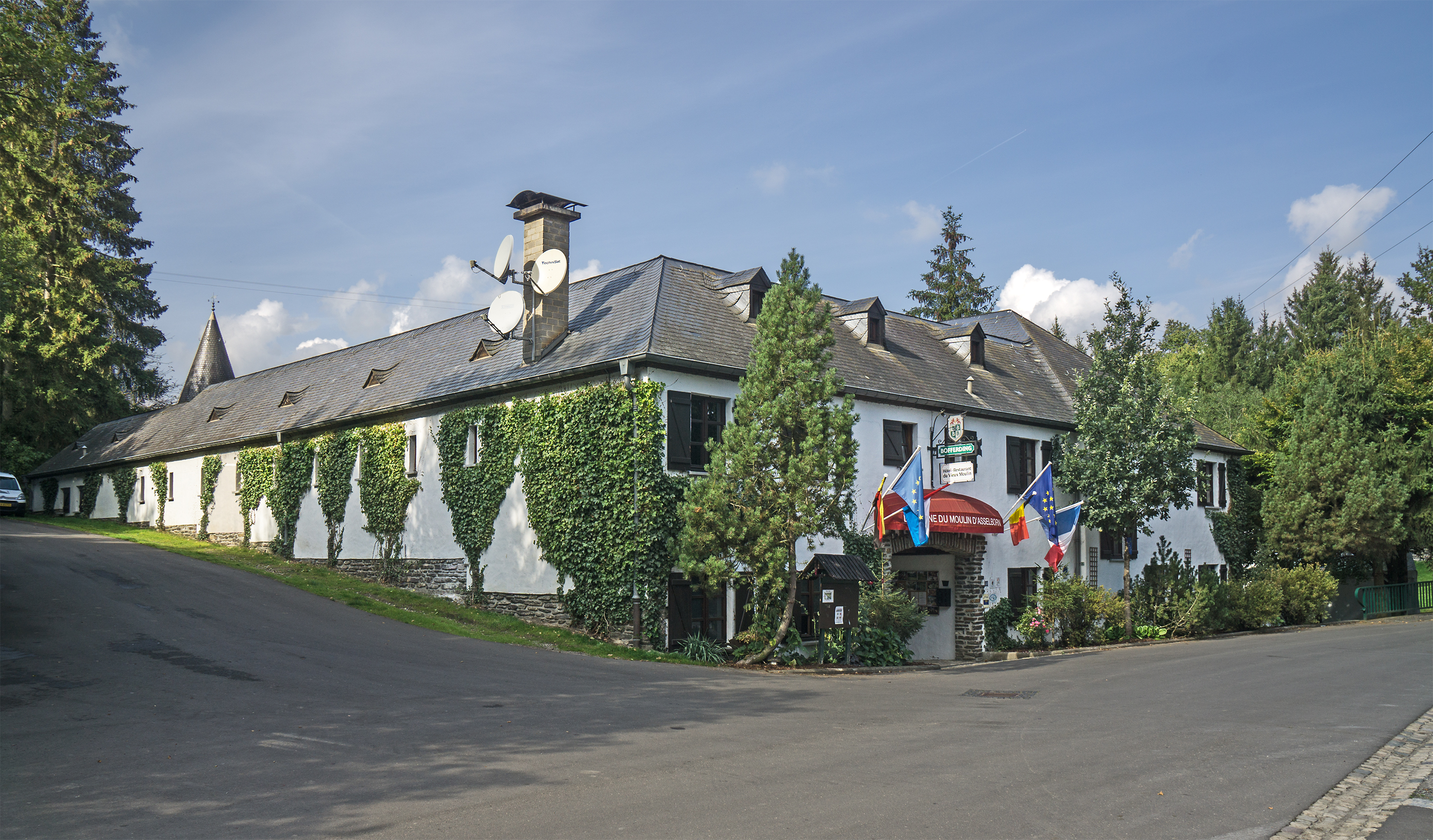 Mill of Asselborn